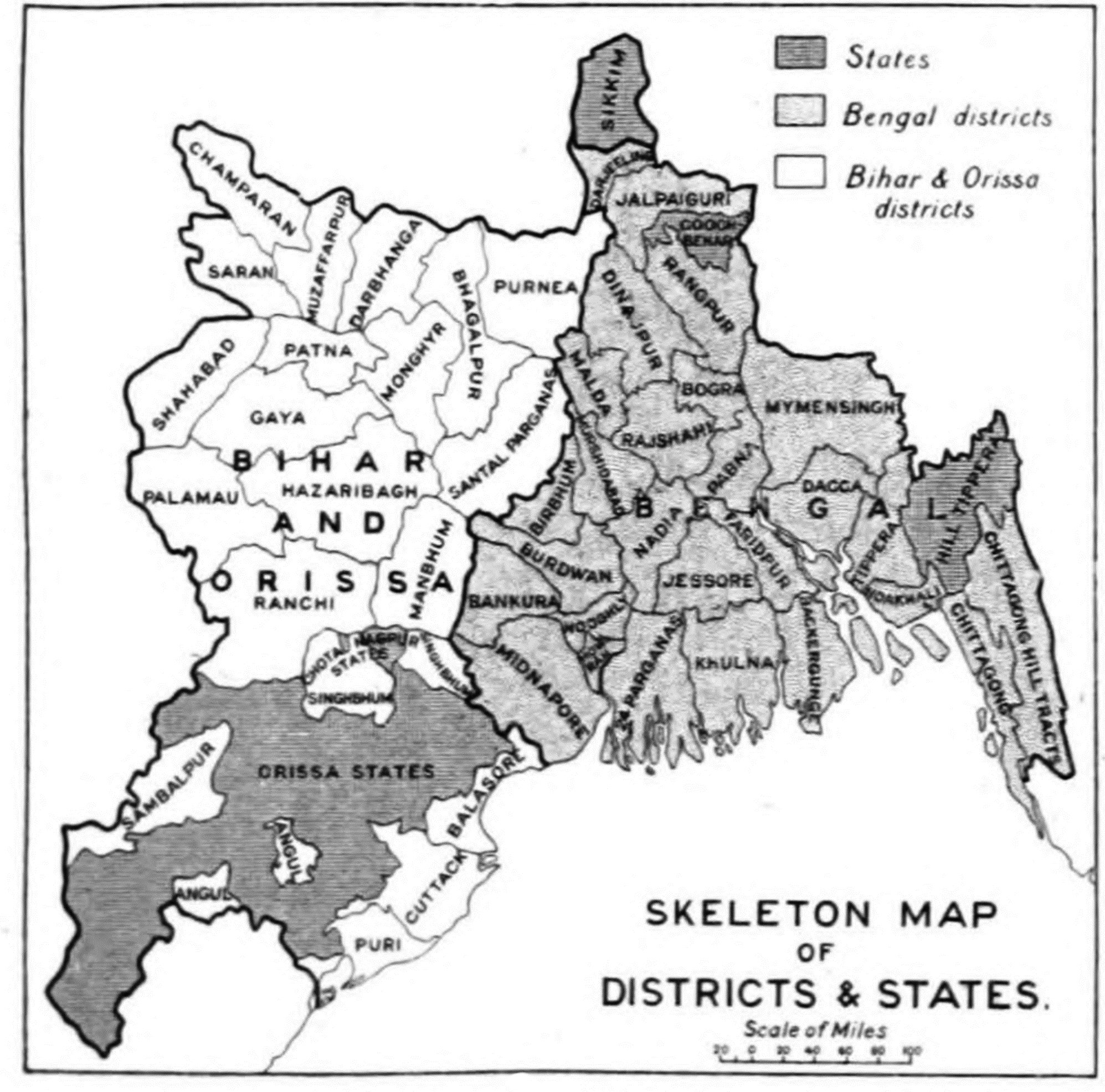 Scan from book "Provincial Geographies of India/Volume 2"